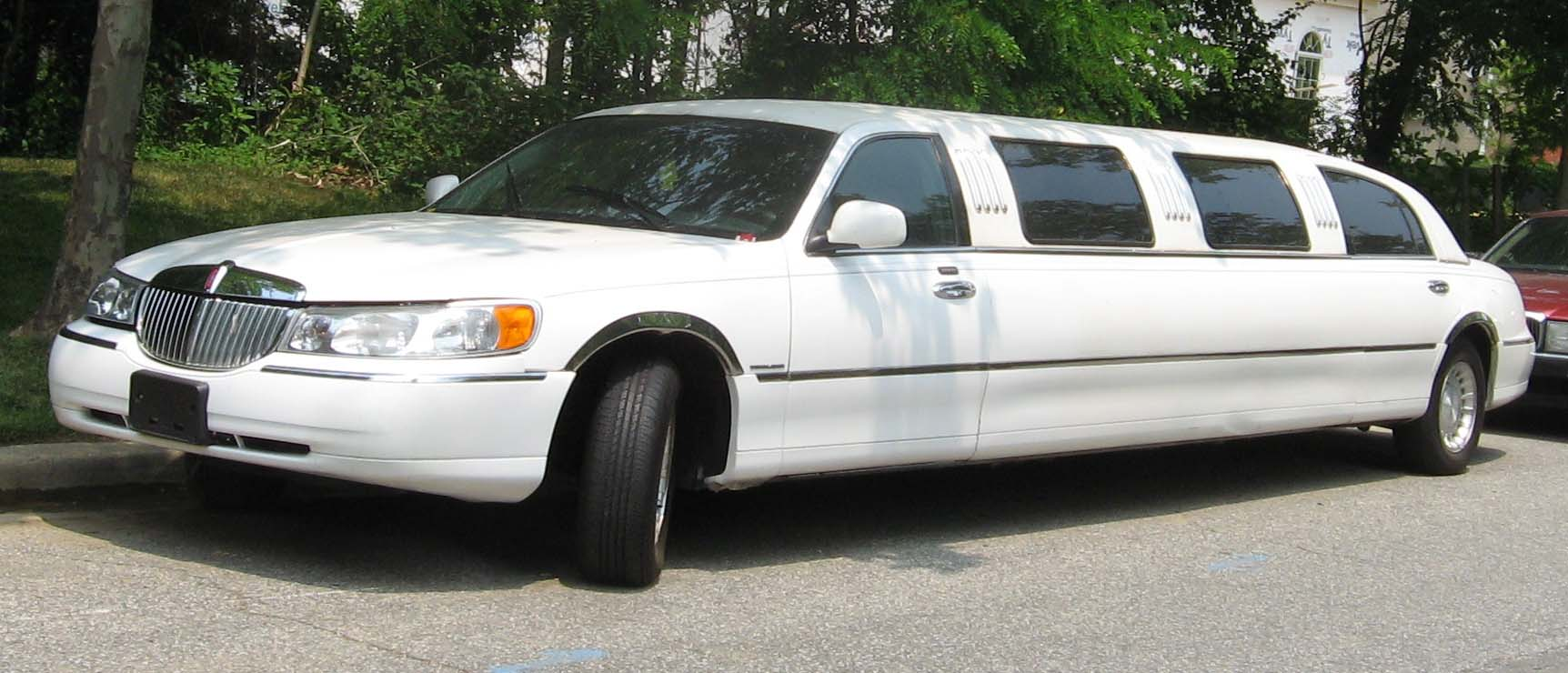 1998-2002 Lincoln Town Car limousine photographed in USA.